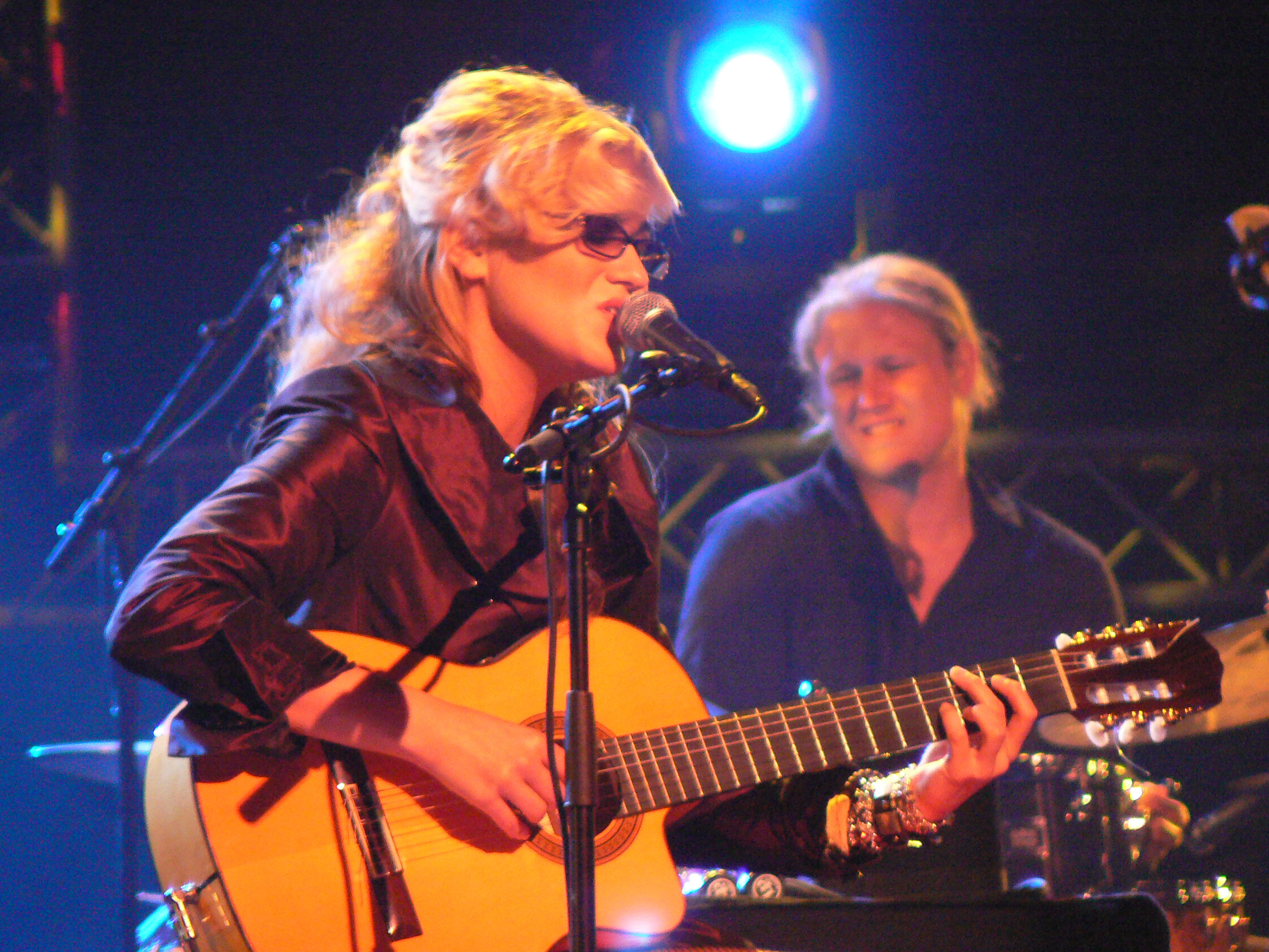 VVAA North Sea Jazz Night @ Ahoy Rotterdam on Thursday, July 9th 2009.